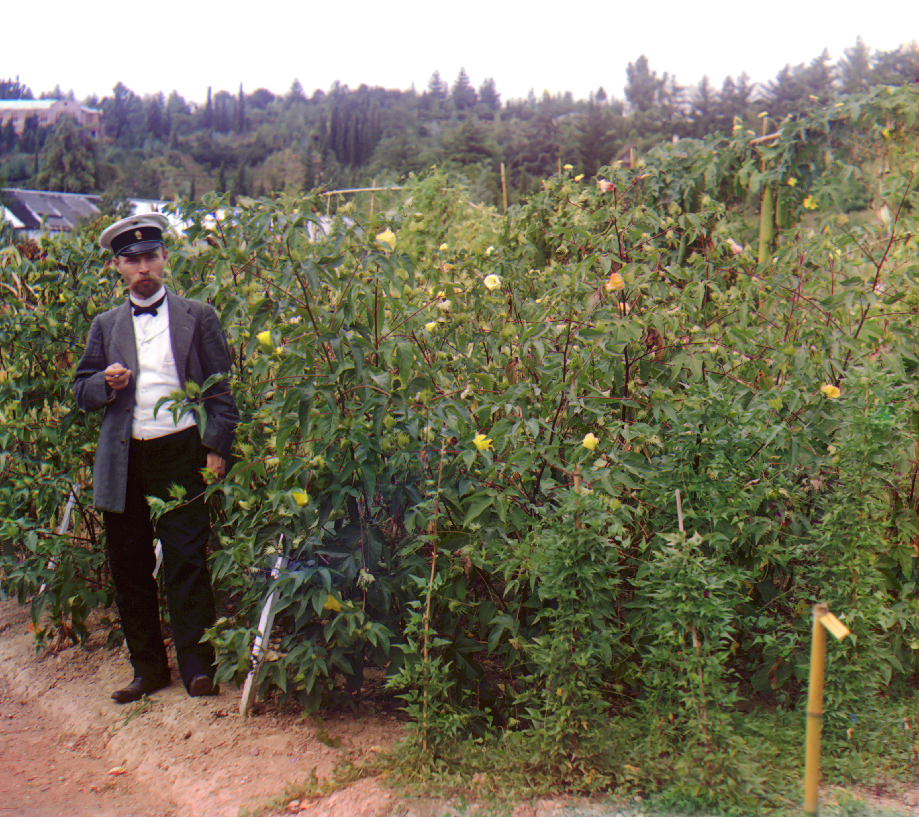 Original Description: Cotton. In Sukhumi Botanical Garden. Man standing next to cotton plants.